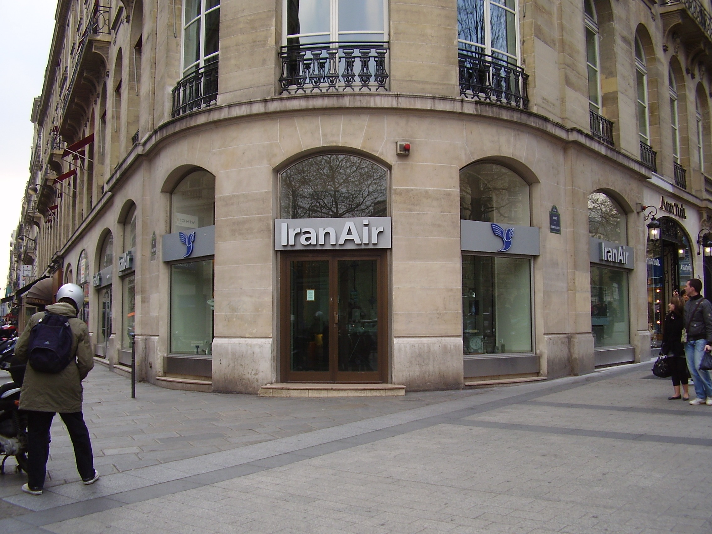 Iran Air office, 63 Avenue des Champs-Elysées, 8th arrondissement, Paris